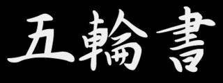 Illustration for "The Book of Five Rings". Copyleft victor falk 2007